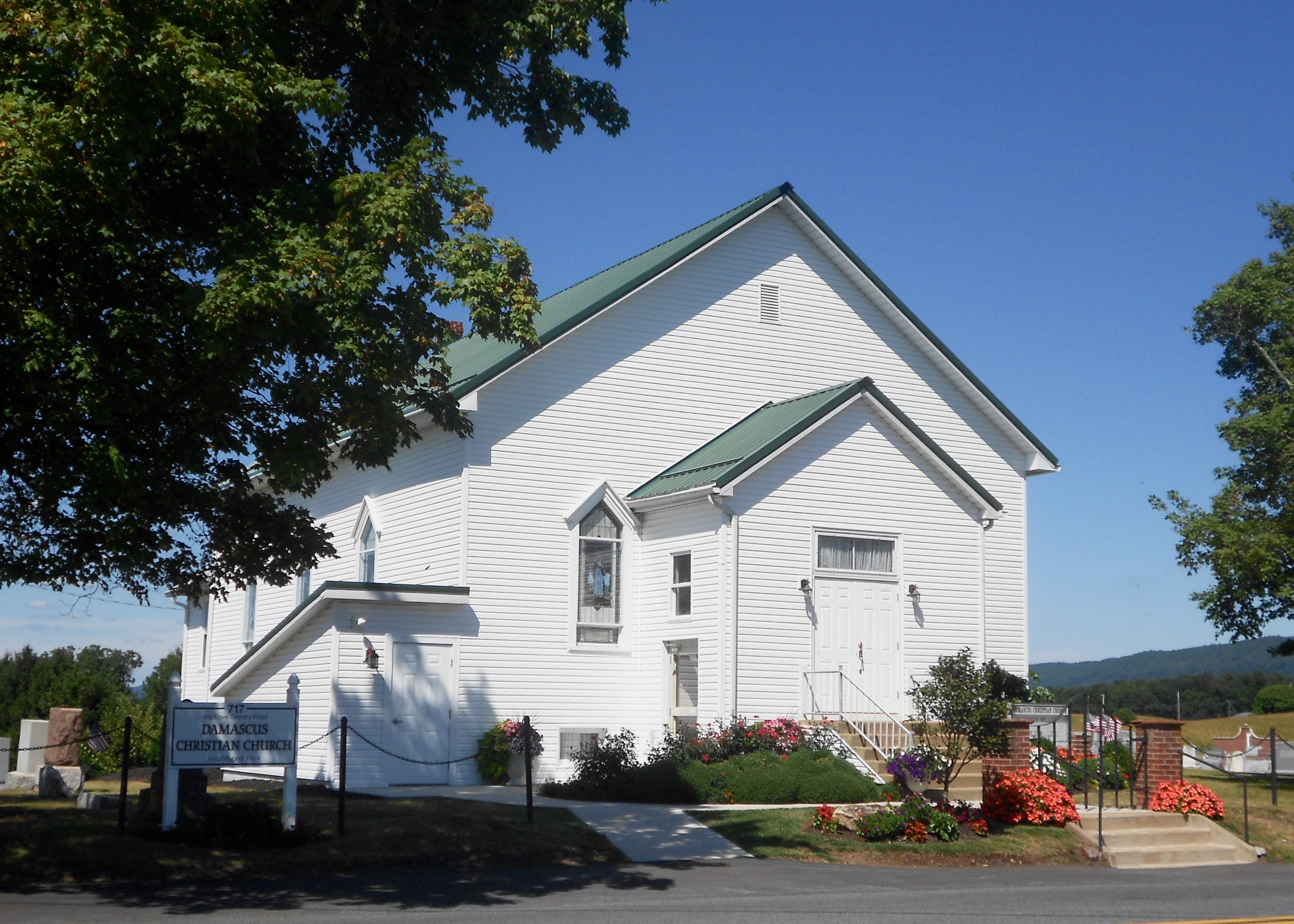 Damascus Christian Church in Thompson Township, Fulton County, Pennsylvania. Way off in the boondocks - no town nearby